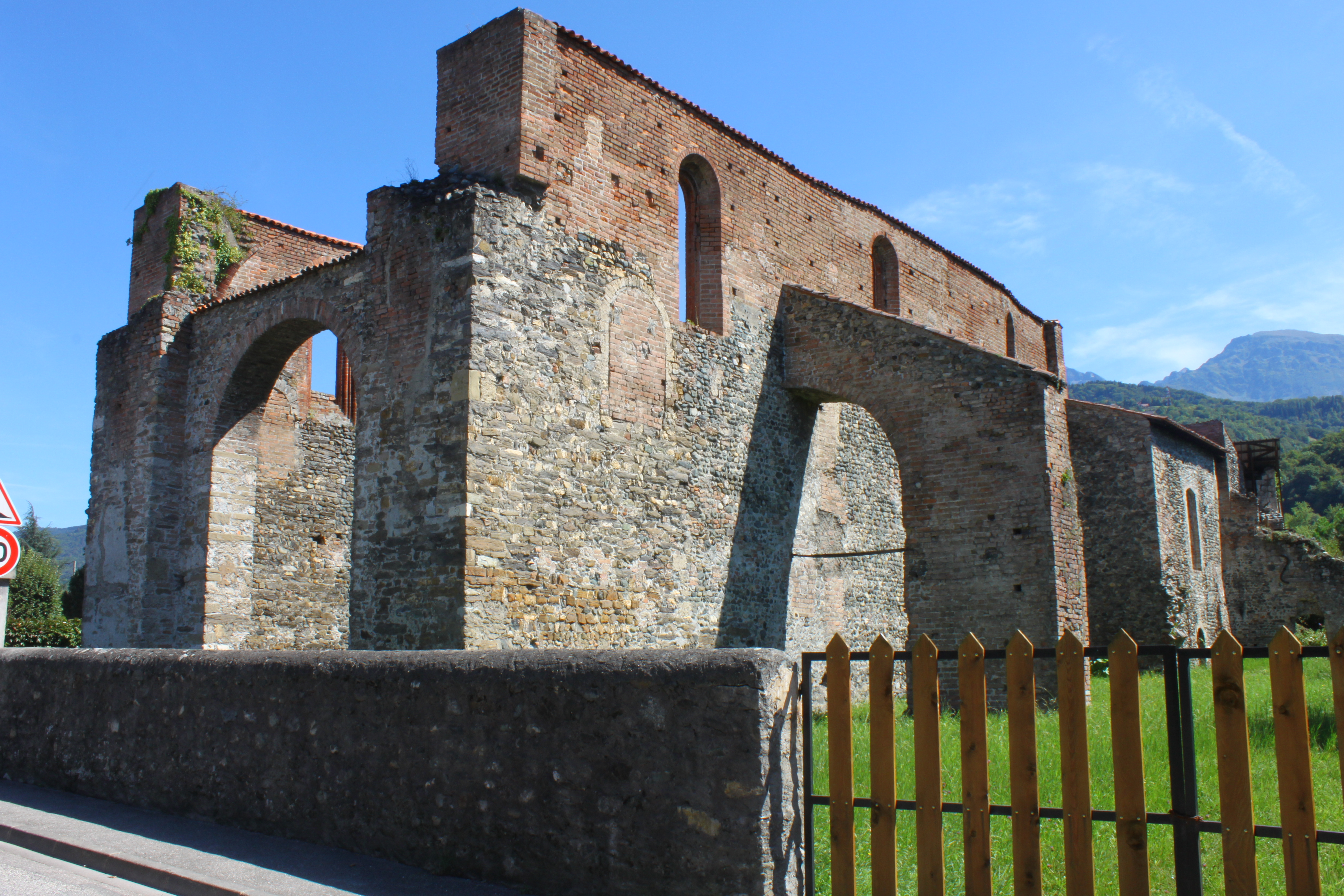 Domène Priory in 2011